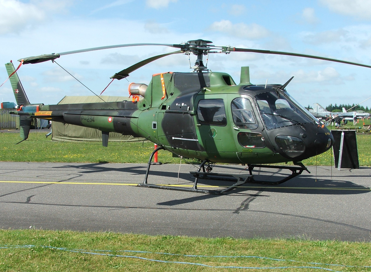 Royal Danish Air Force AS 550 Fennec helicopter. Karup Air Force Base, 2005. /PAJ Date2005SourceOwn workAuthorUser:Pajx